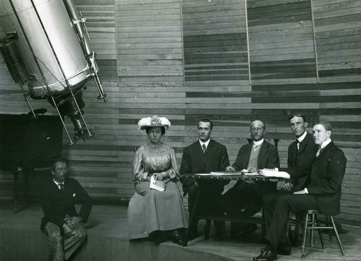 Lowell staff at the Clark Telescope in 1905. Seated left to right: Harry Hussey, Wrexie Leonard, V.M. Slipher, Percival Lowell, Carl Lampland, and John C. Duncan.